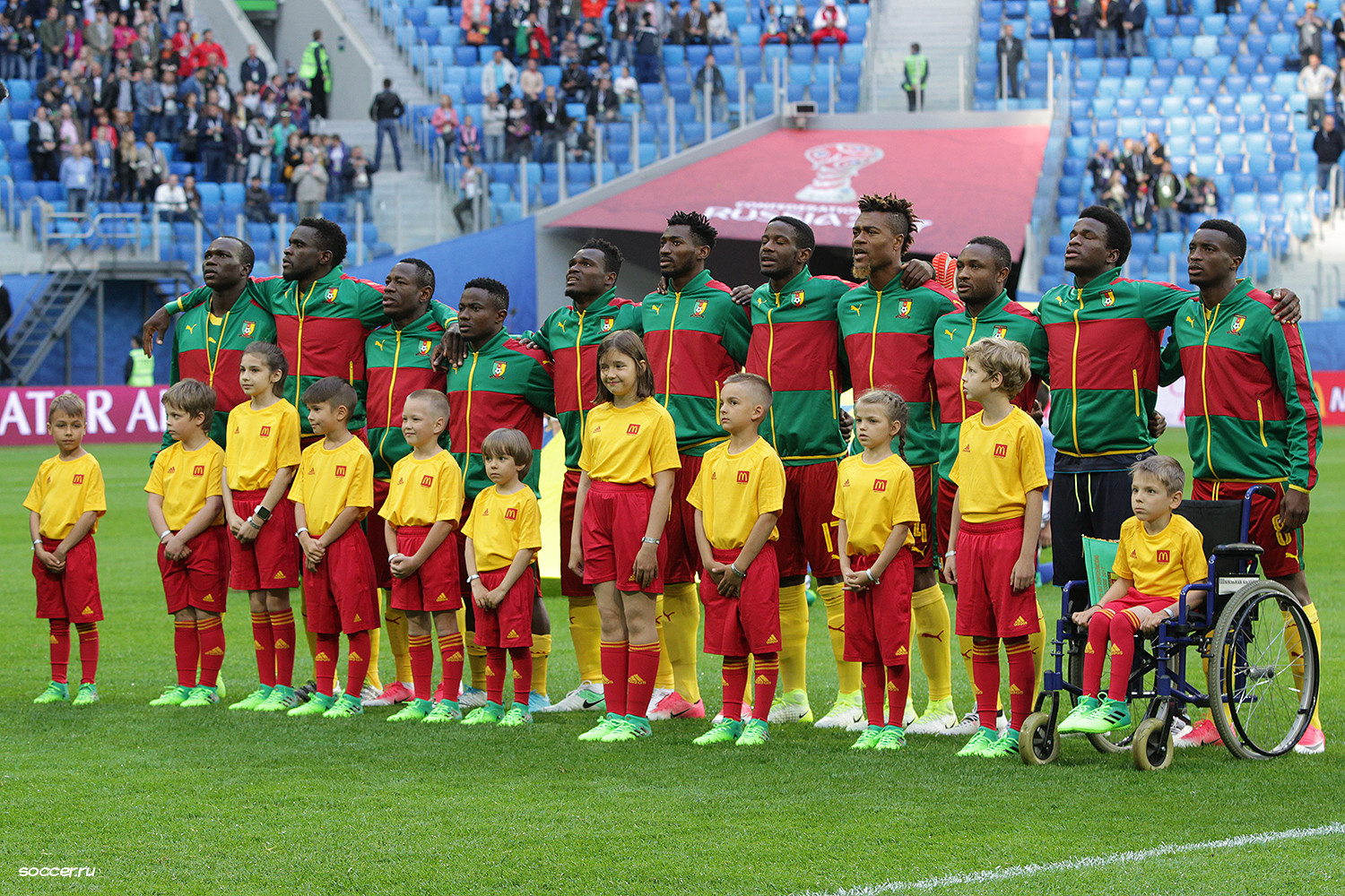 Cameroon vs Australia (1-1). FIFA Confederations Cup 2017